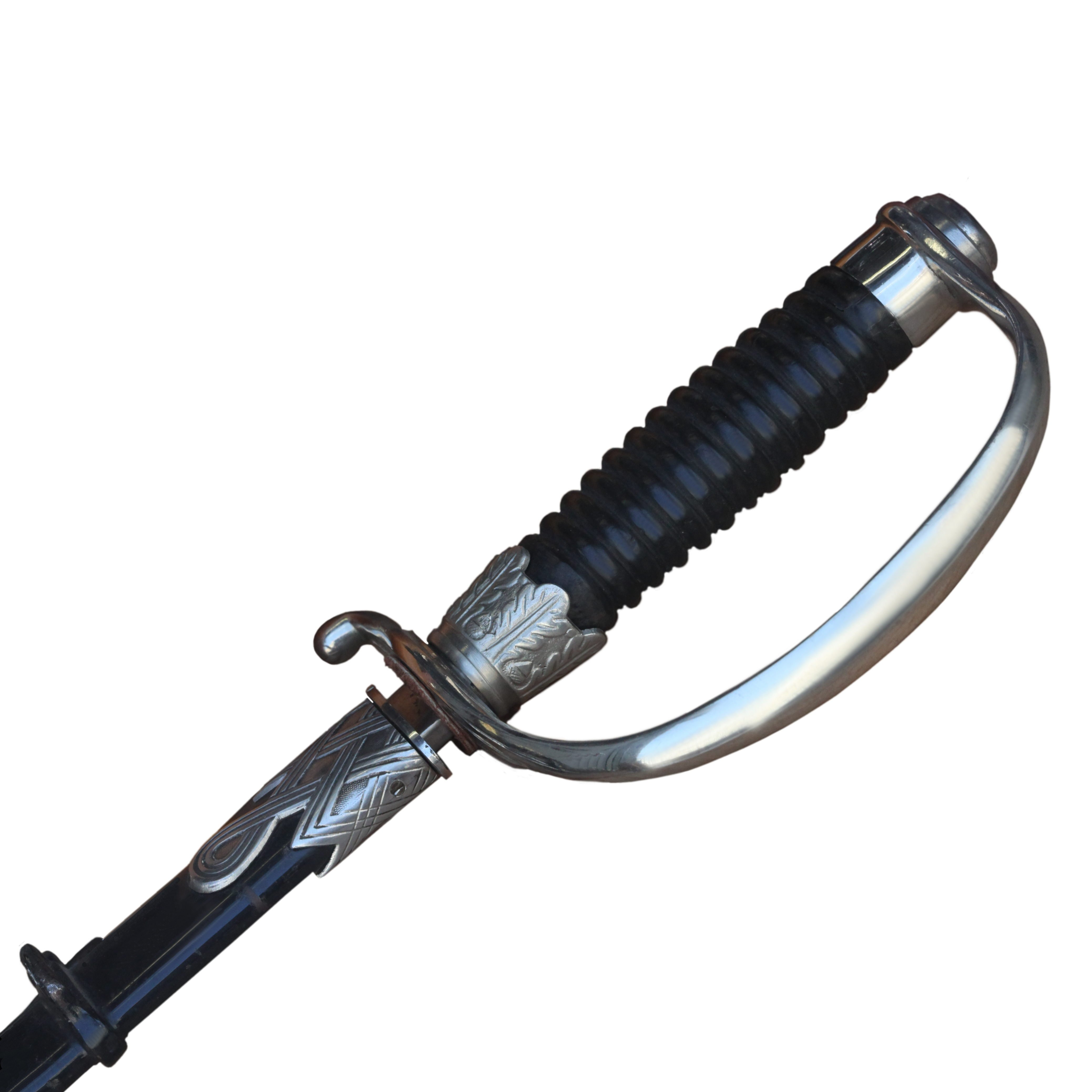 Handle and guard of a Degen, ceremonial smallsword of the SS.